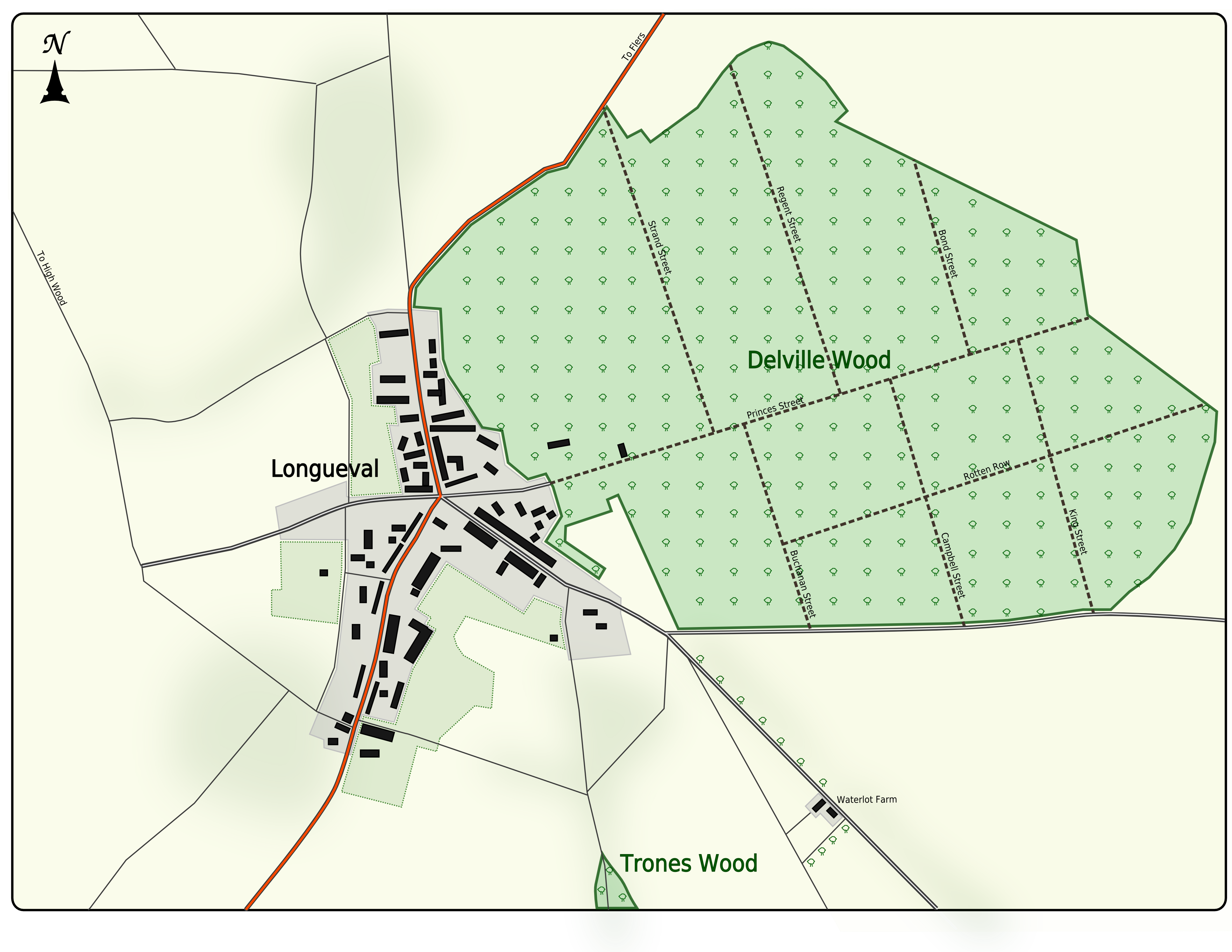 Terrein map of Delville Wood